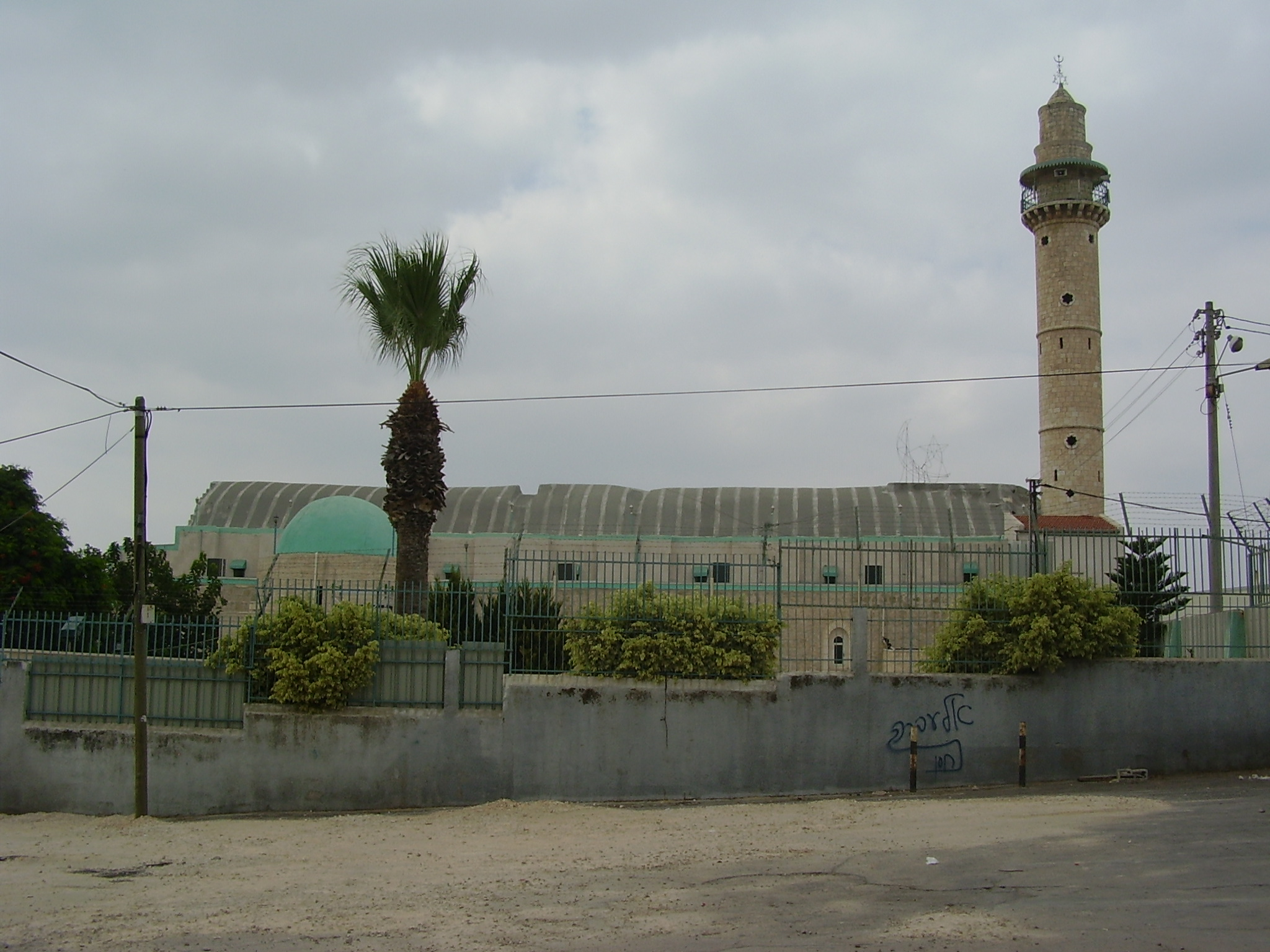 grand mosque in ramla